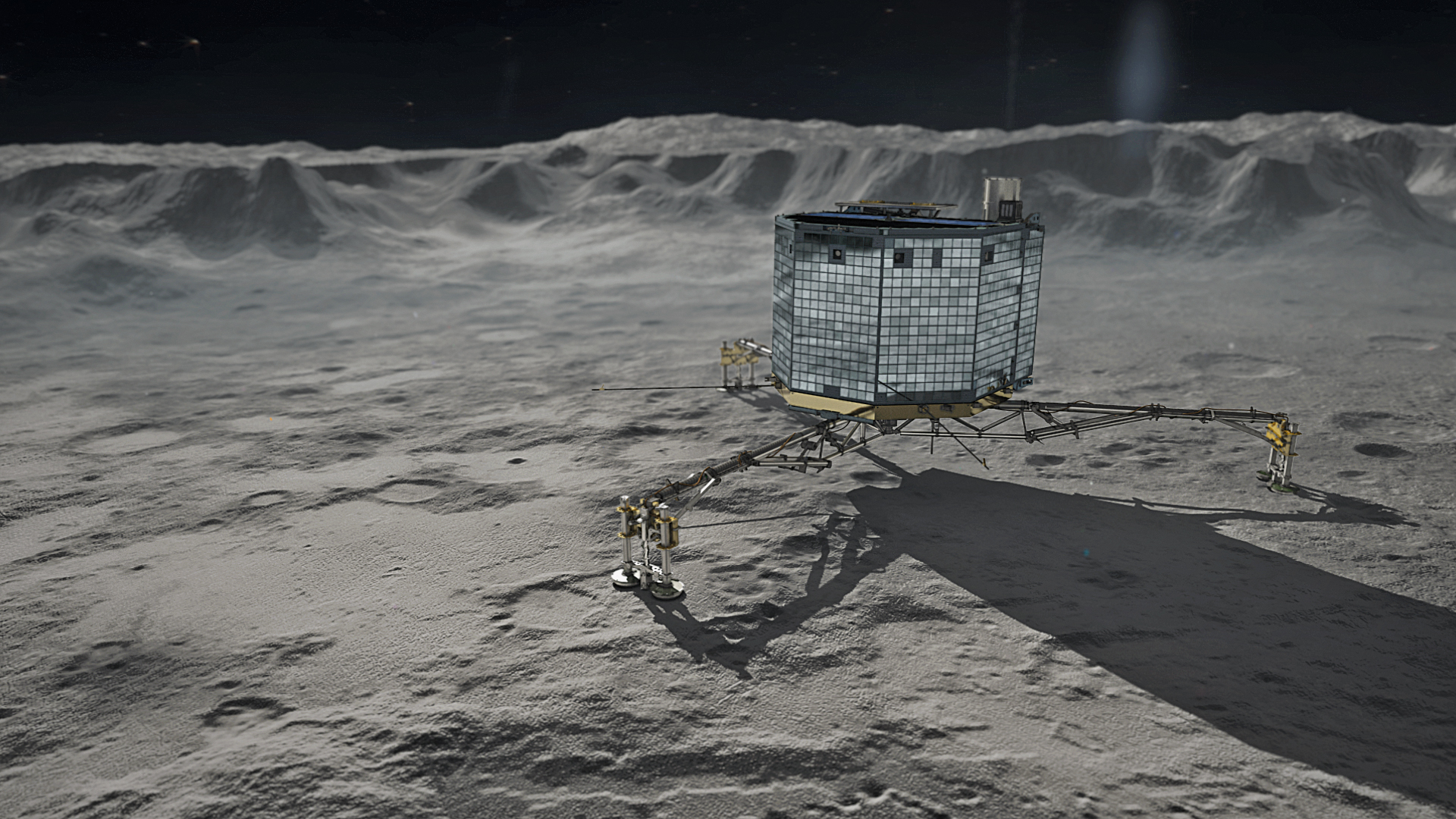 Philae on Comet 67P/Churyumov-Gerasimenko Few things could be more fascinating or demanding in the history of European space travel than the Rosetta comet mission. The lander, Philae, will separate from its parent craft on 11 November 2014, touch down on the comet and immediately fire harpoons to anchor itself on the surface. The two spacecraft will then accompany the comet on its month-long journey to the point at which it is closest to the Sun.